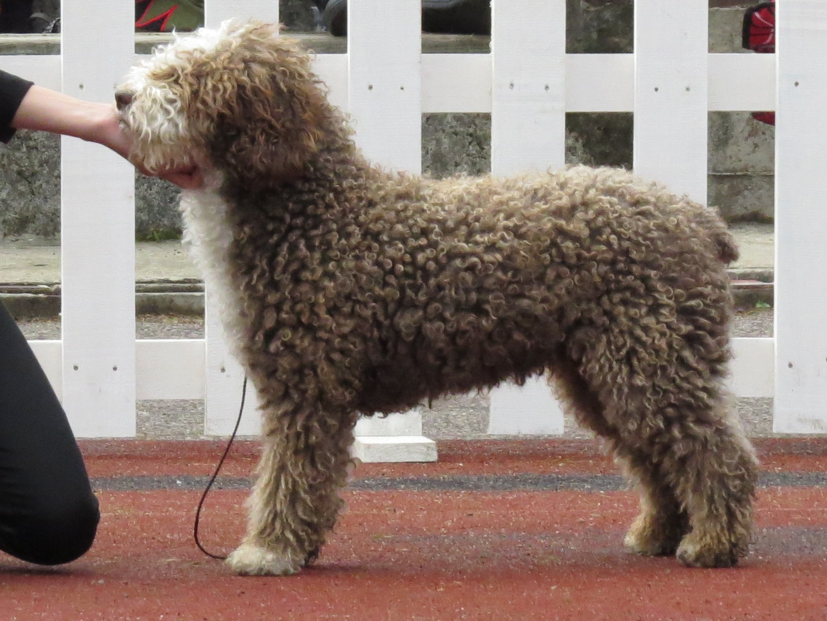 Spanish Water Dog in Tallinn duo CACIB, 17-18 Aug 2013